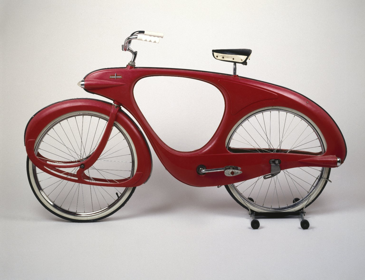 Benjamin G. Bowdens Spacelander Bicycle, made in 1946.